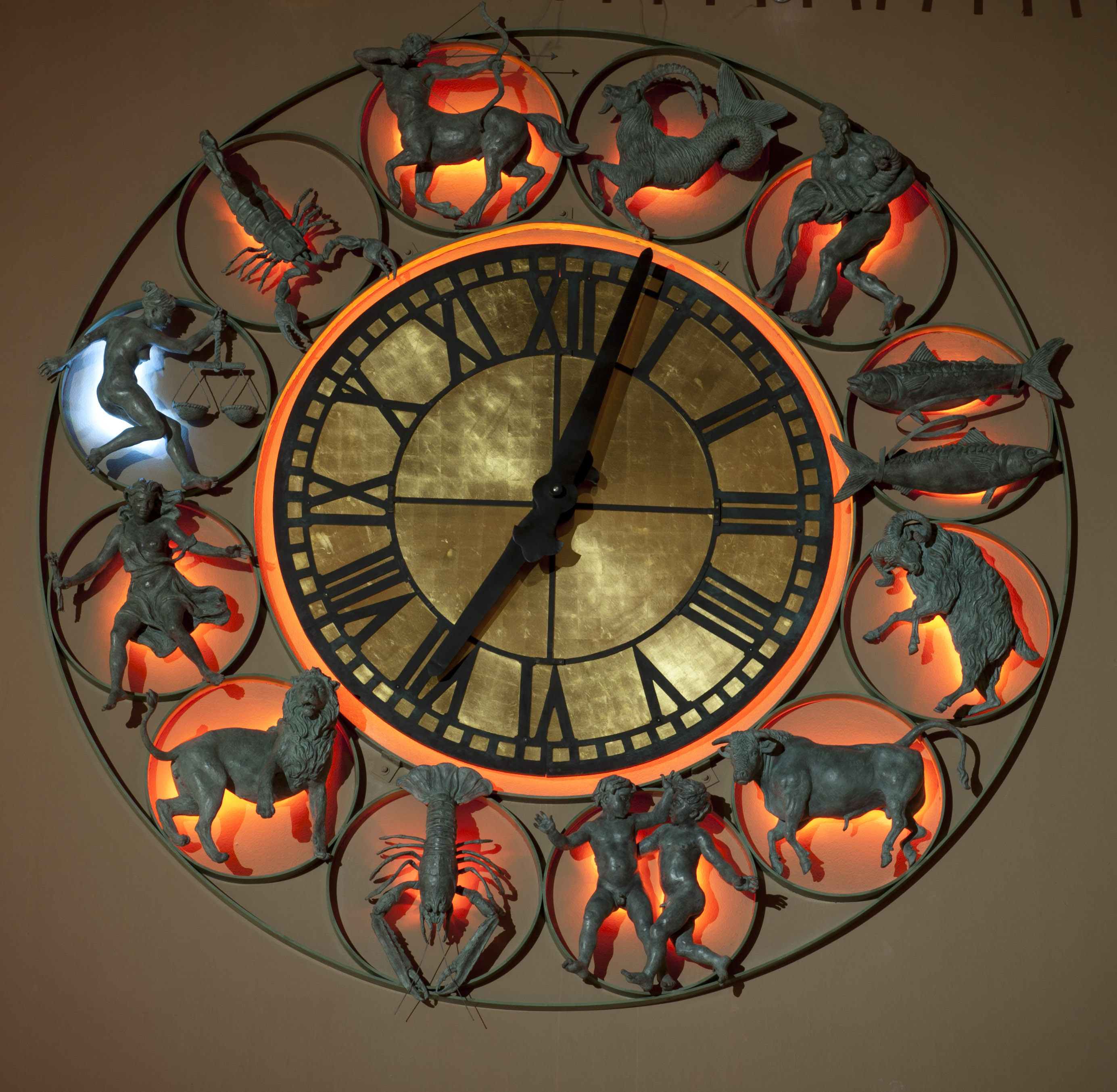 Photo of the Oslo astronomical clock during its unveiling at Karl Johans gate 3 in Oslo, Norway.